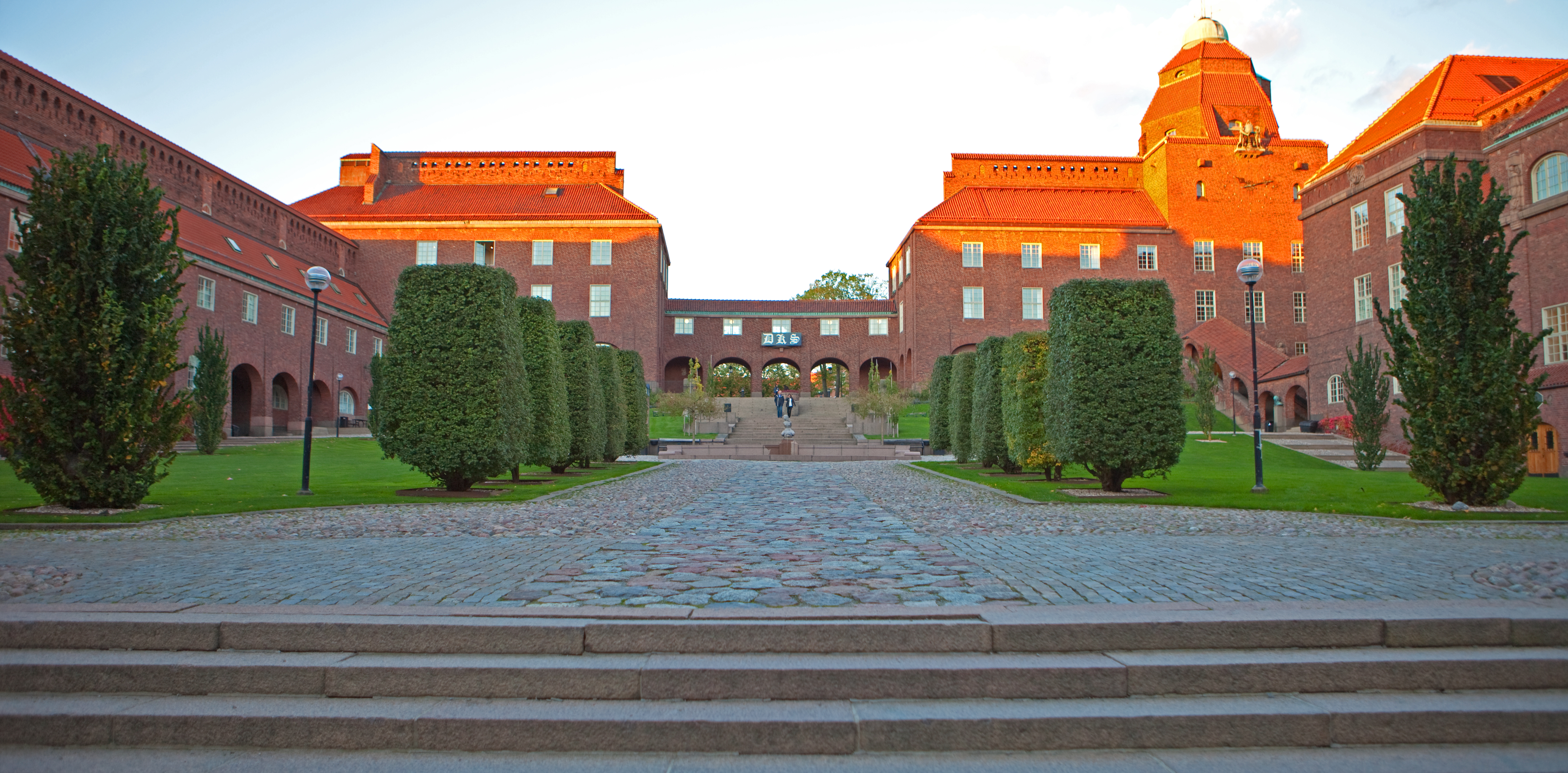 KTH, Royal Institute of Technology, Stockholm Sweden October 2012